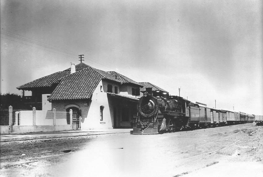 A steam locomotive stopped at Valle Hermoso train station of Córdoba Central Railway. This is currently part of "Tren de las Sierras".